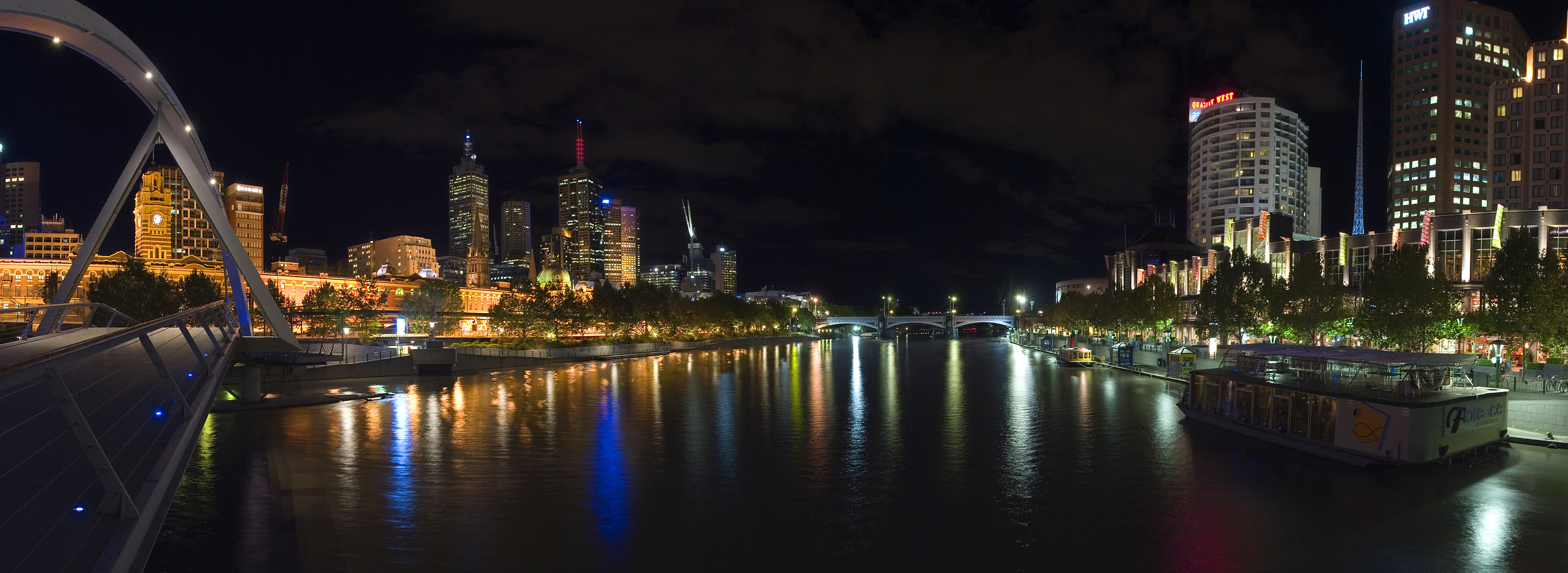 View of the Yarra River as it flows through Central Melbourne at night, with the central business district on the left and Southbank on the right. A five segment panorama taken by myself with a Canon 10D and 17-40mm f/4L lens.